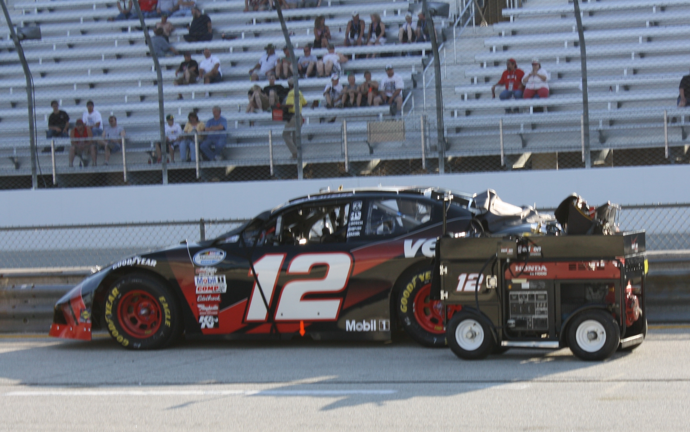 NASCAR driver Justin Allgaiers Dodge at the 2009 Northern 250 Nationwide Series race at the Milwaukee Mile.